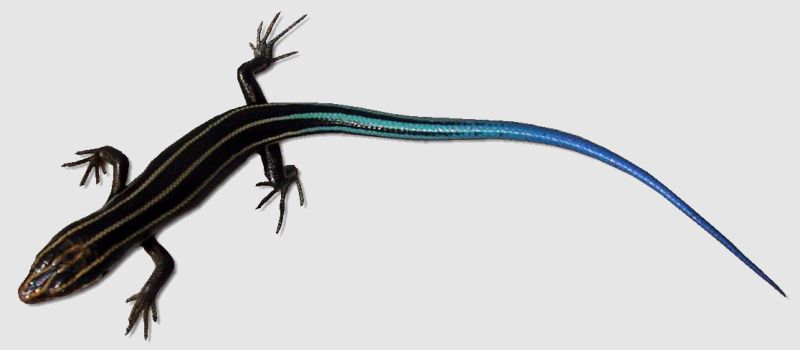 Southeastern five-lined Skink, Eumeces inexpectatus, South Illinois, Mississippi river